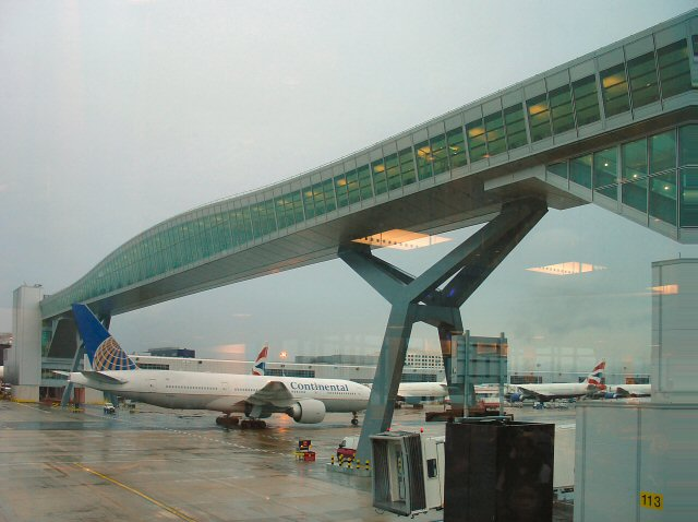 Bridge to Pier 6, Gatwick North Terminal. View taken from pier 6 (through the window - colour adjusted to take away the blue tint of the glass) A view of this large bridge (opened in May 2005) to convey the size of the structure. The large aircraft can easily pass beneath its central span, as can be seen by the Continental aircraft about to do just that. At 32m high, it is designed to allow 747-400 aircraft to pass underneath (and 3 million pedestrians a year to walk across). Access to the bridge from the main terminal and the pier is via escalators